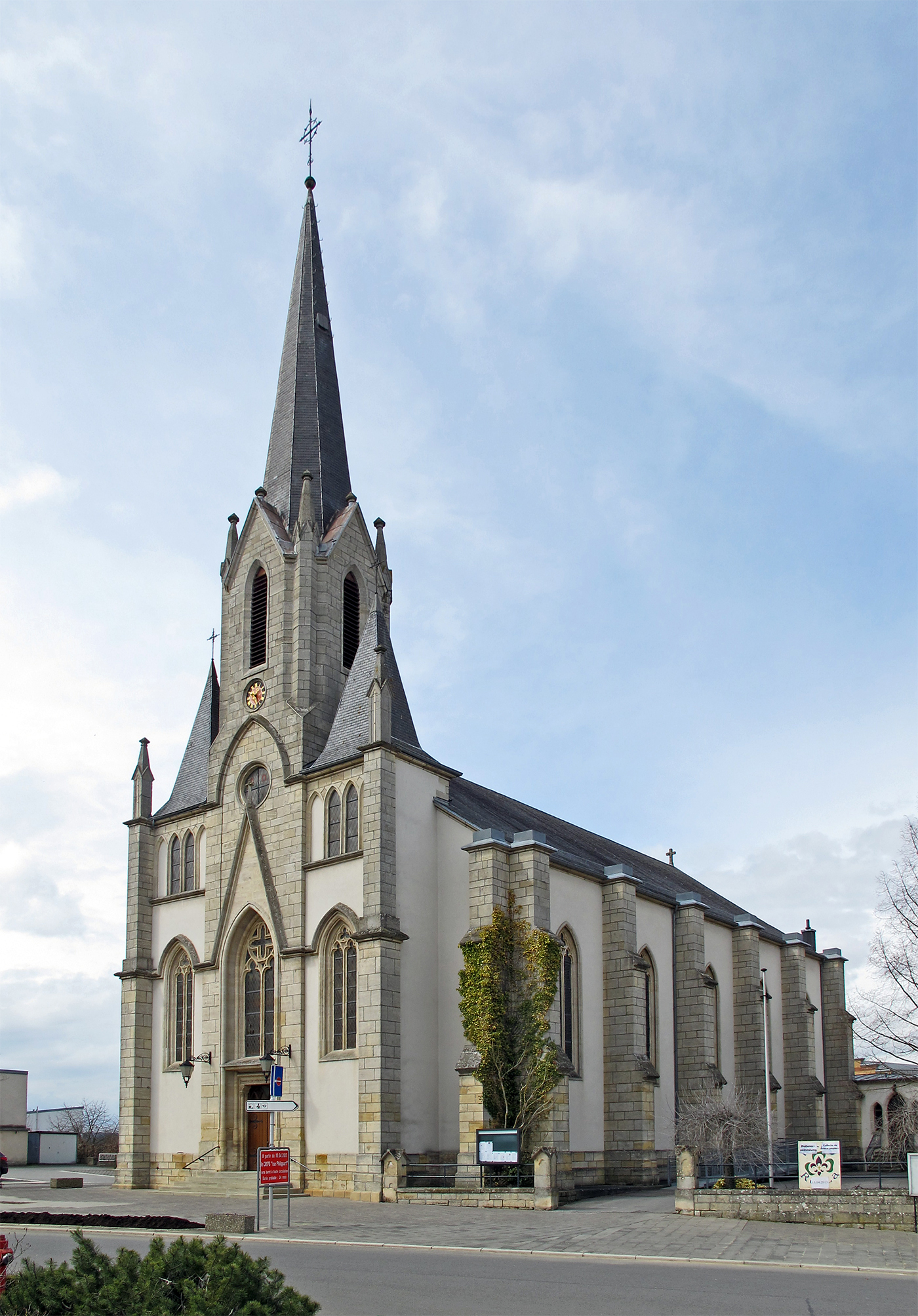 Church of Rodange, Luxembourg